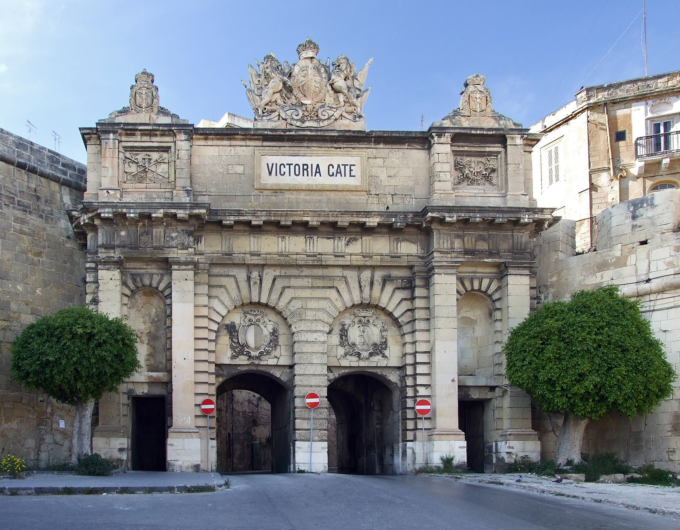 Victoria Gate, Valletta, Malta. Built 1884-1885. Designed by Emmanuel Galizia (1830-1906) who was chief architect of Malta under the British. The foundation stone was laid by the general Sir Arthur Borton who was the governor during that time. (1)(2)